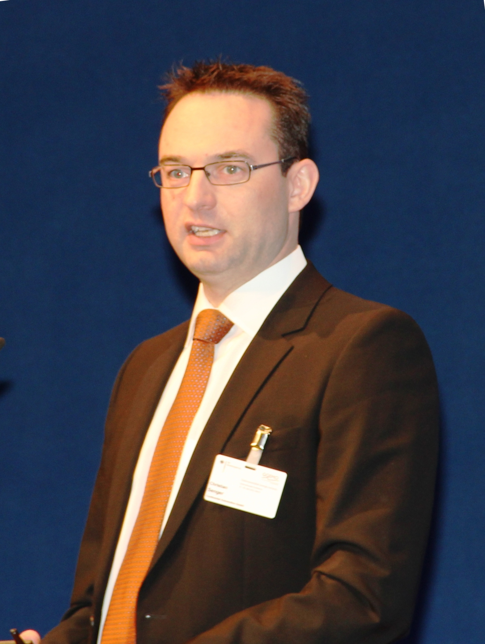 Christian Senger, Senior Vice President, Systems & Technology Automotive, Continental